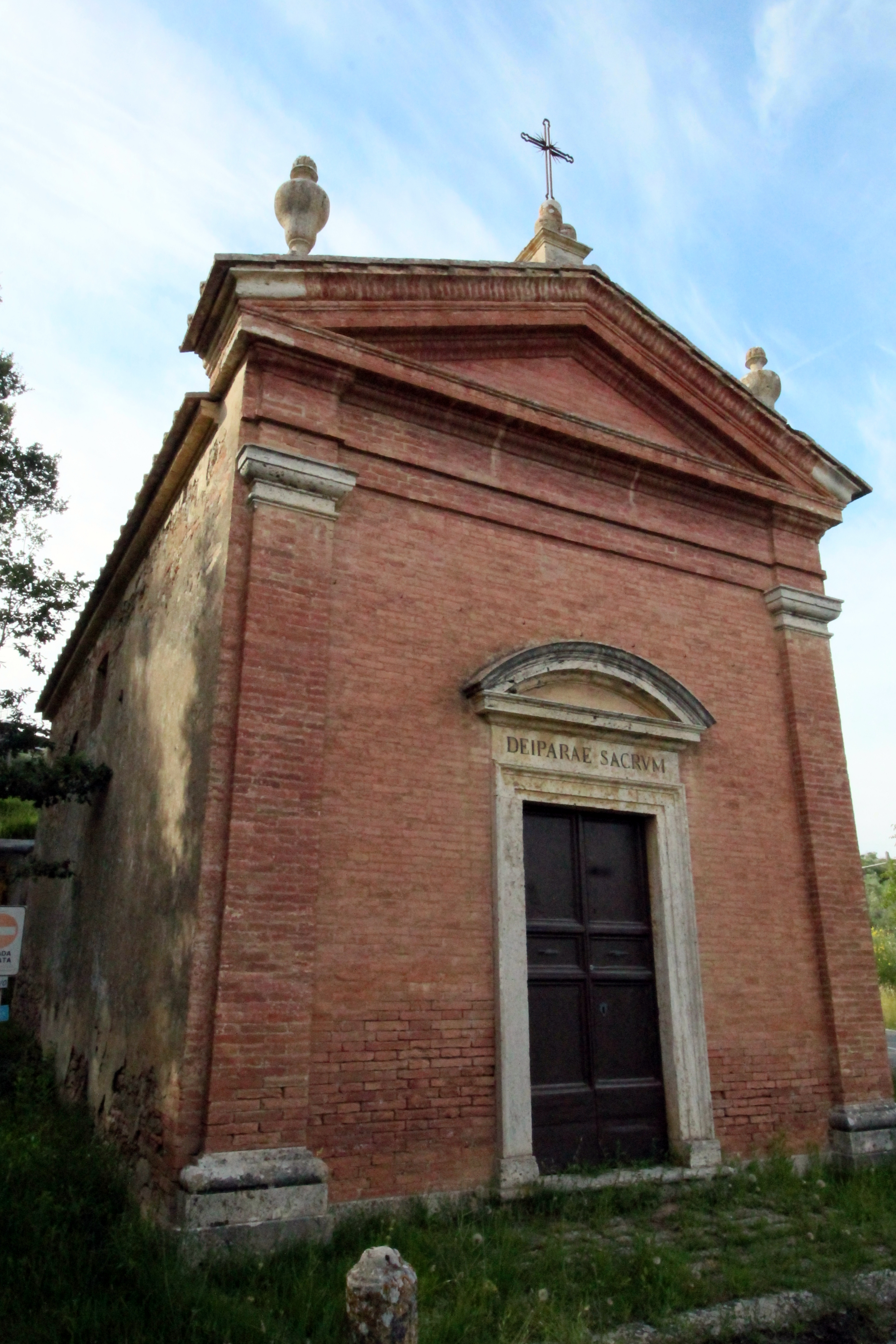 Church Madonna del Tribbio (Santa Maria delle Grazie), just outside and north of San Giovanni d’Asso, Crete Senesi, Province of Siena, Tuscany, Italy